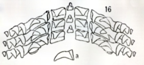 Radula of Choristella leptalea Bush, 1897; family Lepetellidae; off New Jersey, USA